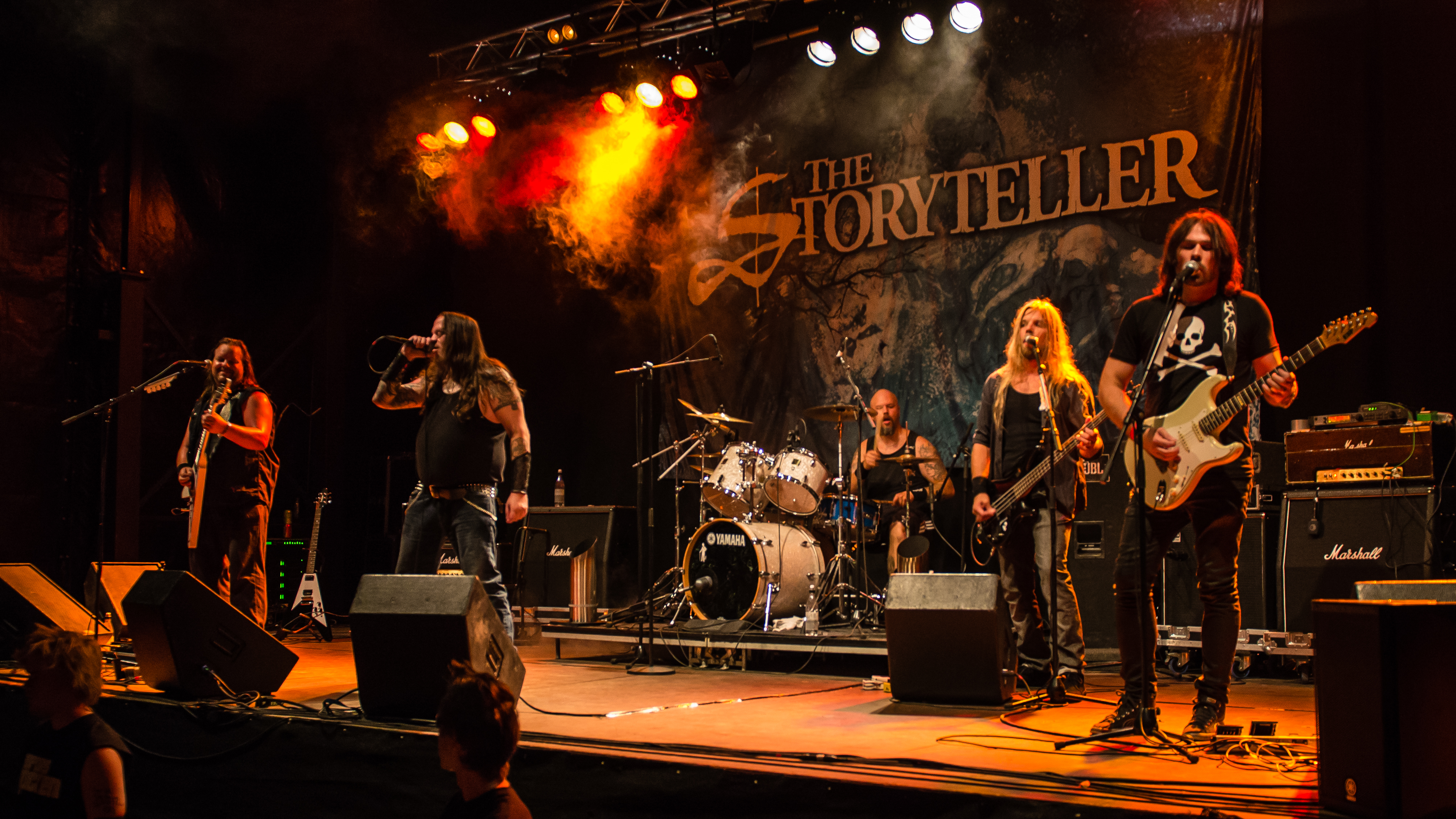 Metal band The Storyteller at music festival Hoforsrocken 2013.